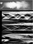 Subsonic and supersonic nozzzle jets at different base pressures